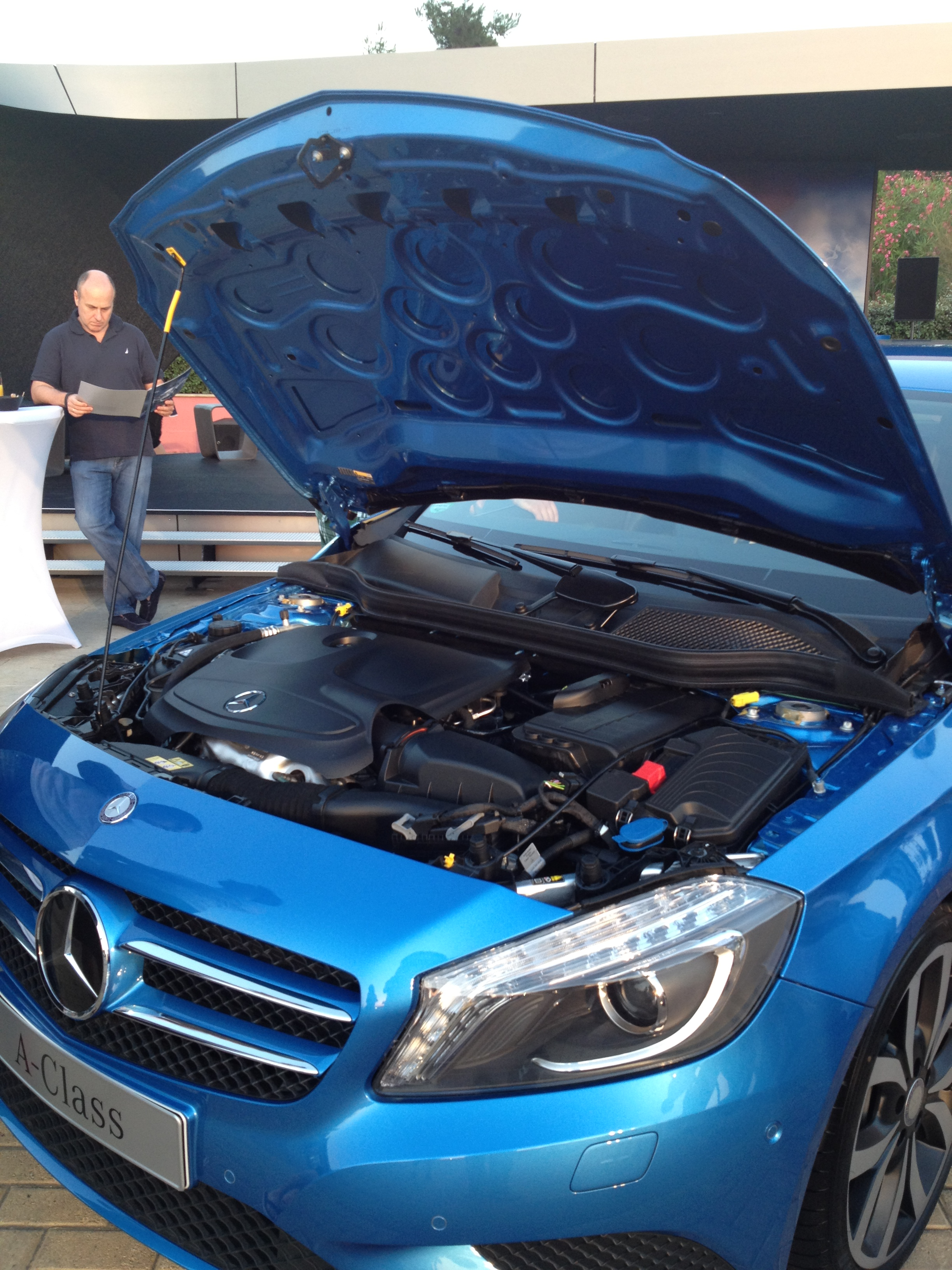 Mercedes A-Class 2012.